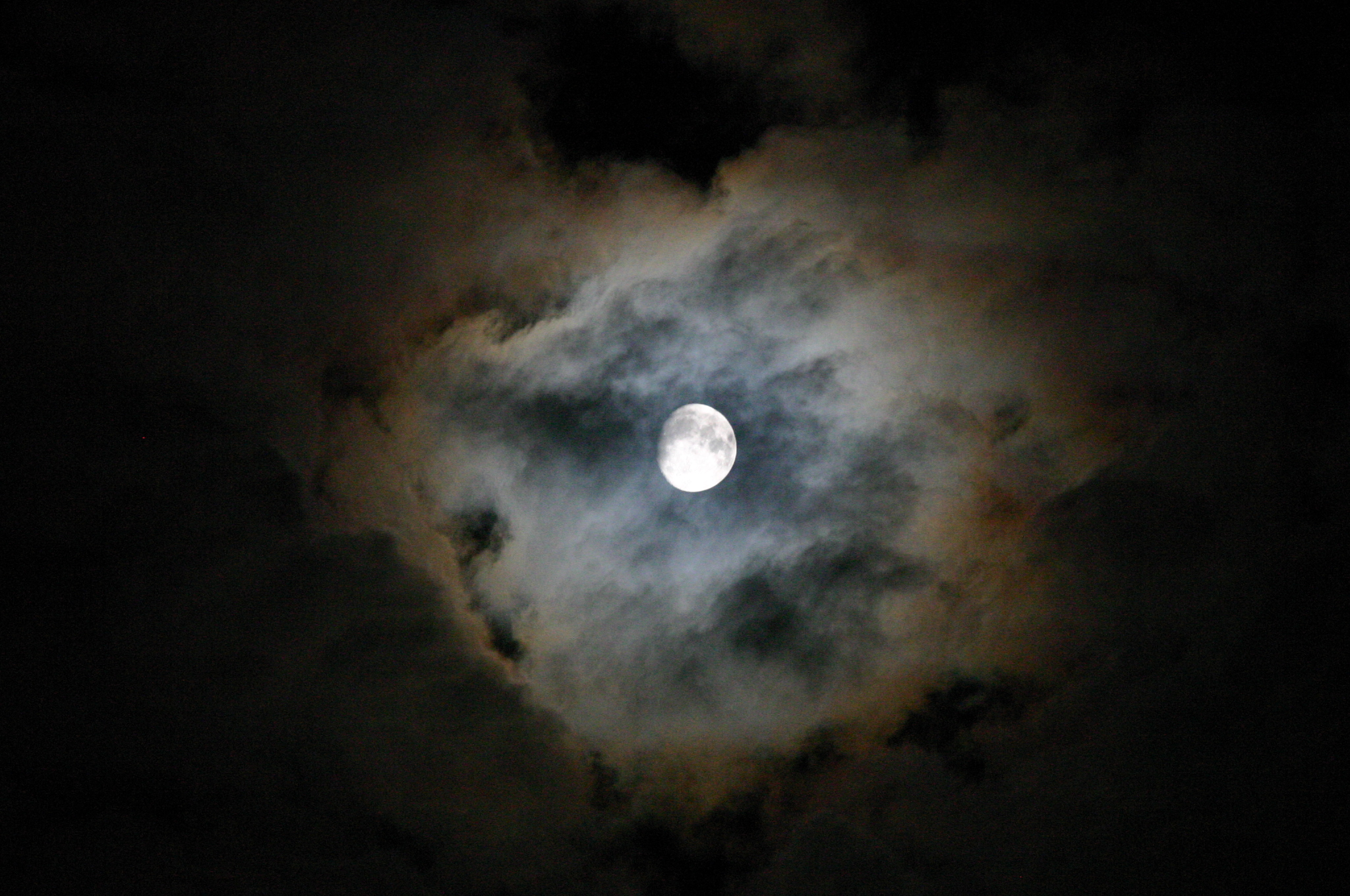 Corona around the Moon due to diffraction by the clouds